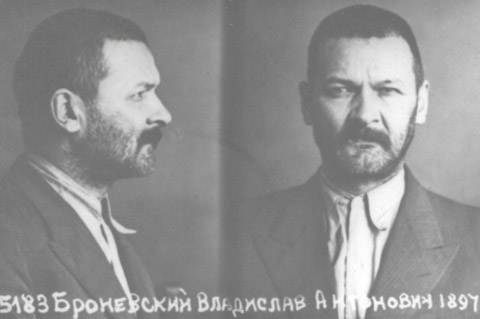 Władysław Broniewski (1897-1962) -Polish poet